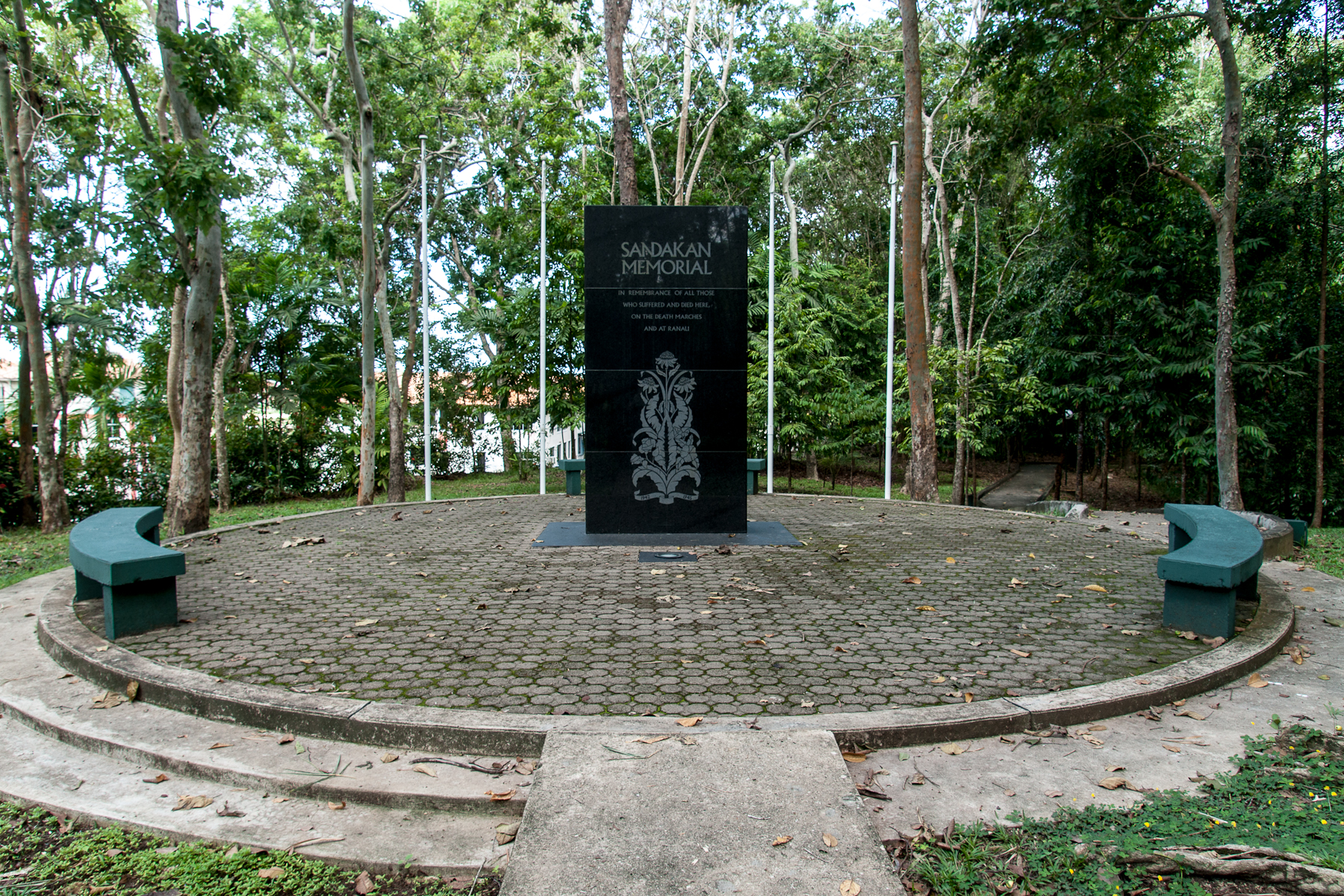 Sandakan Memorial Park; Obelisk, Frontside